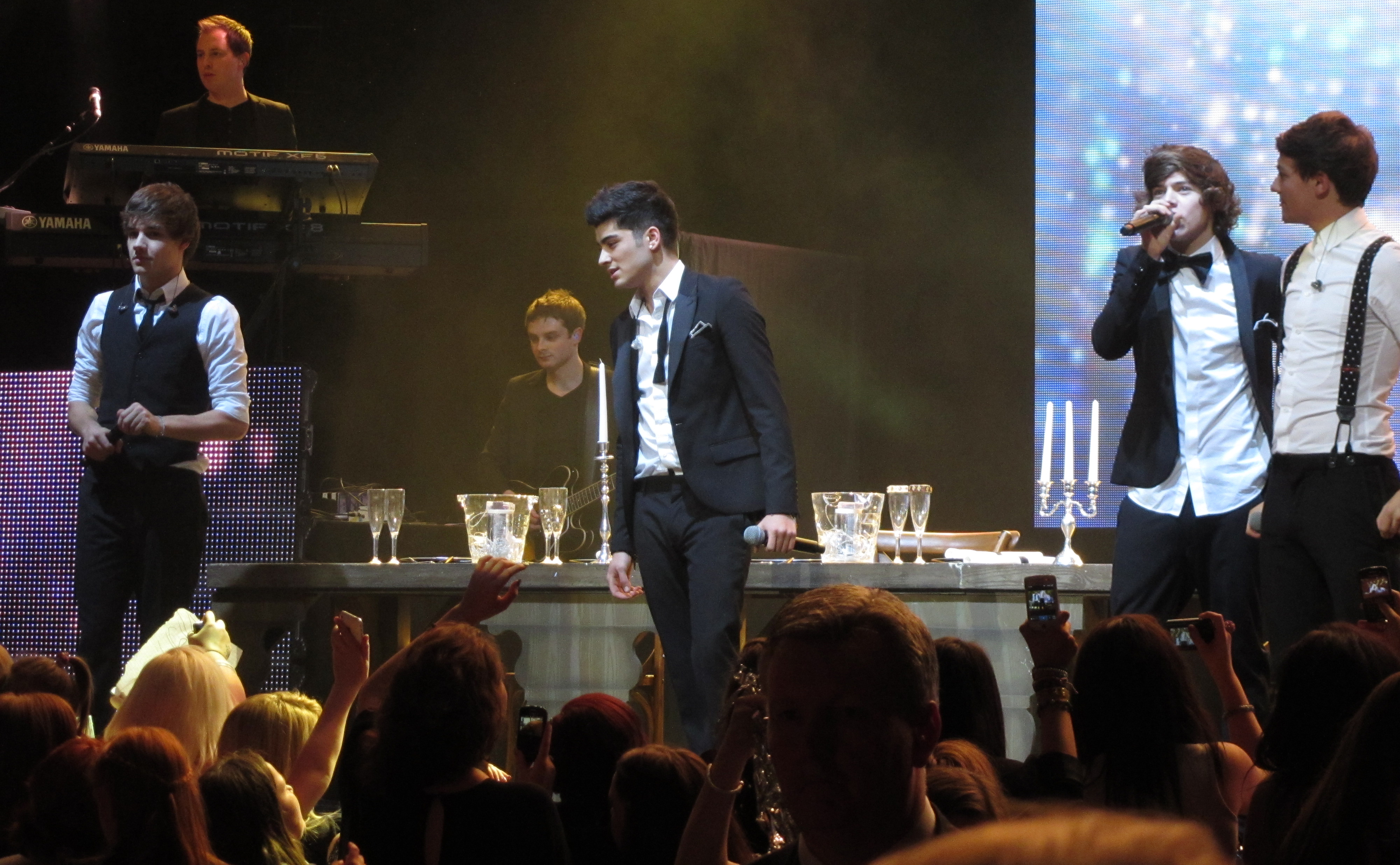 One Direction, Clyde Auditorium, Glasgow, Saturday 14 January 2012